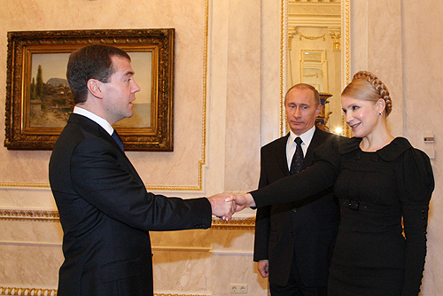 THE KREMLIN, MOSCOW. The meeting of the Russian President with the Ukrainian Prime Minister Before the beginning of the International conference of chapters of the states and governments through question of providing of delivery of Russian gas to its users in Europe.